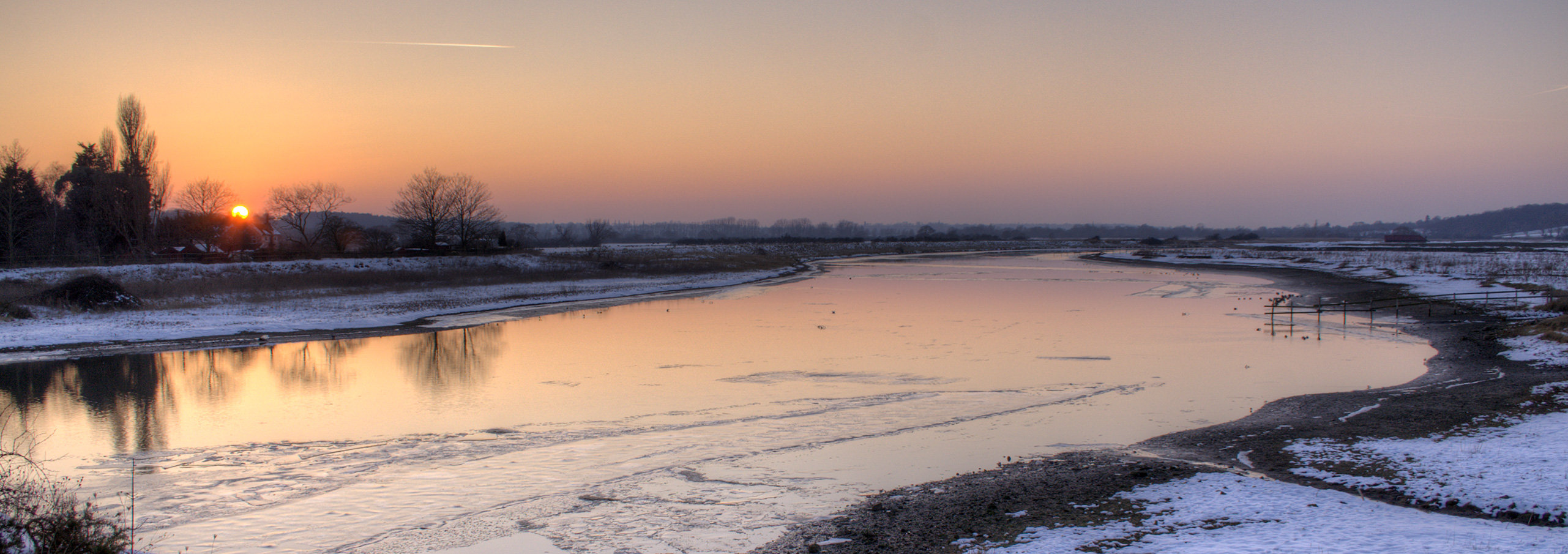 River Stour from the White Bridge, Manningtree